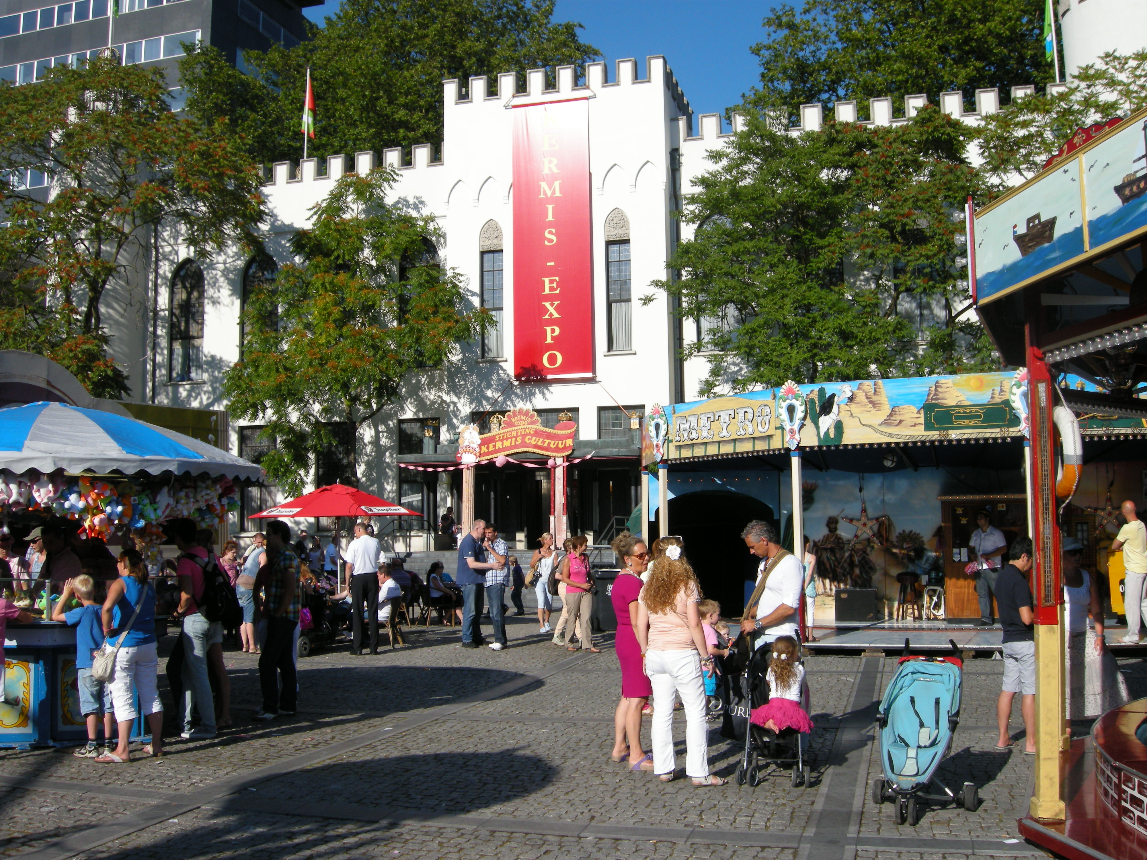 Nostalgic fun fair in Tilburg in front of the Palace-Council House, the City Hall of Tilburg.